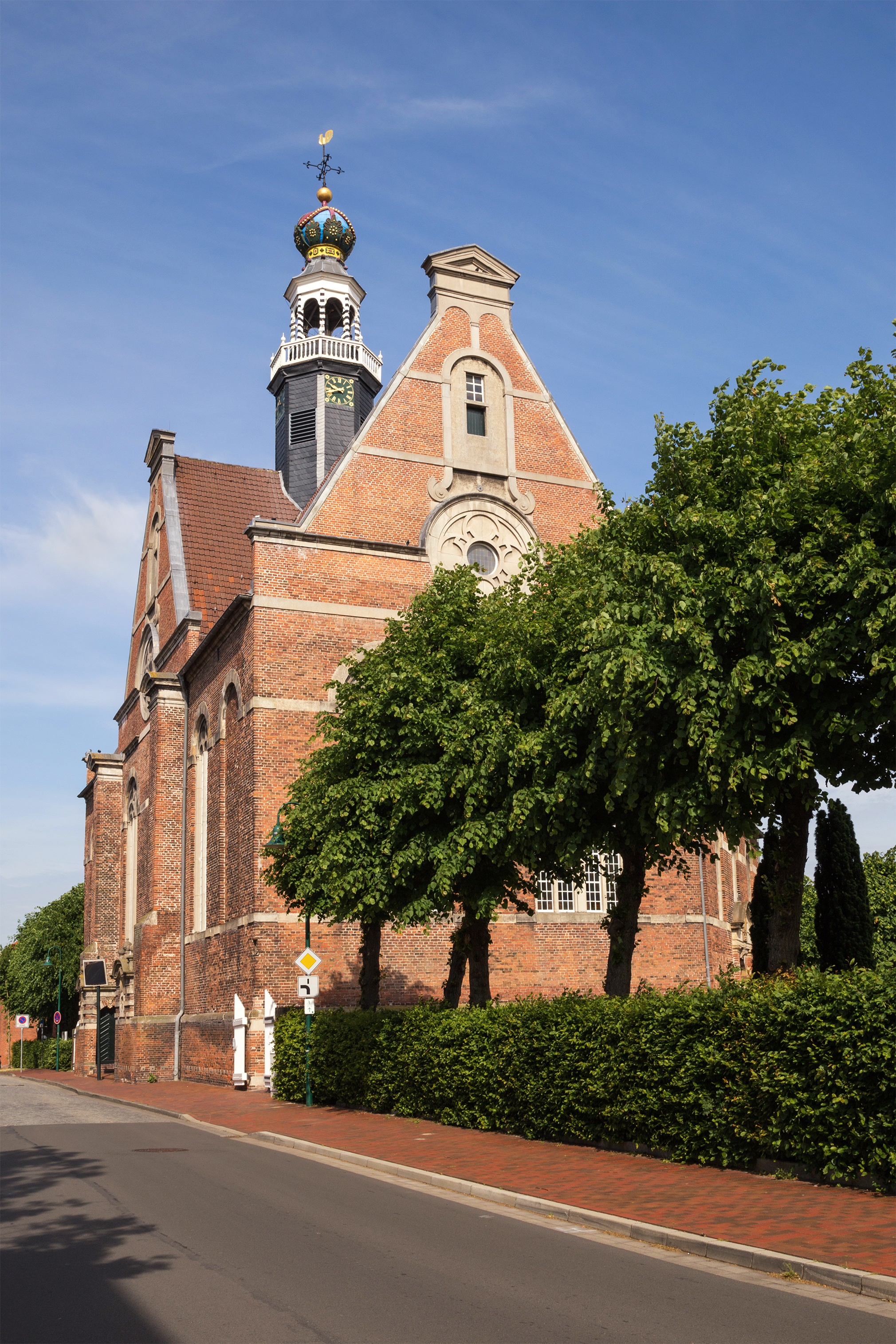 Emden, church "Neue Kirche" (New Church)